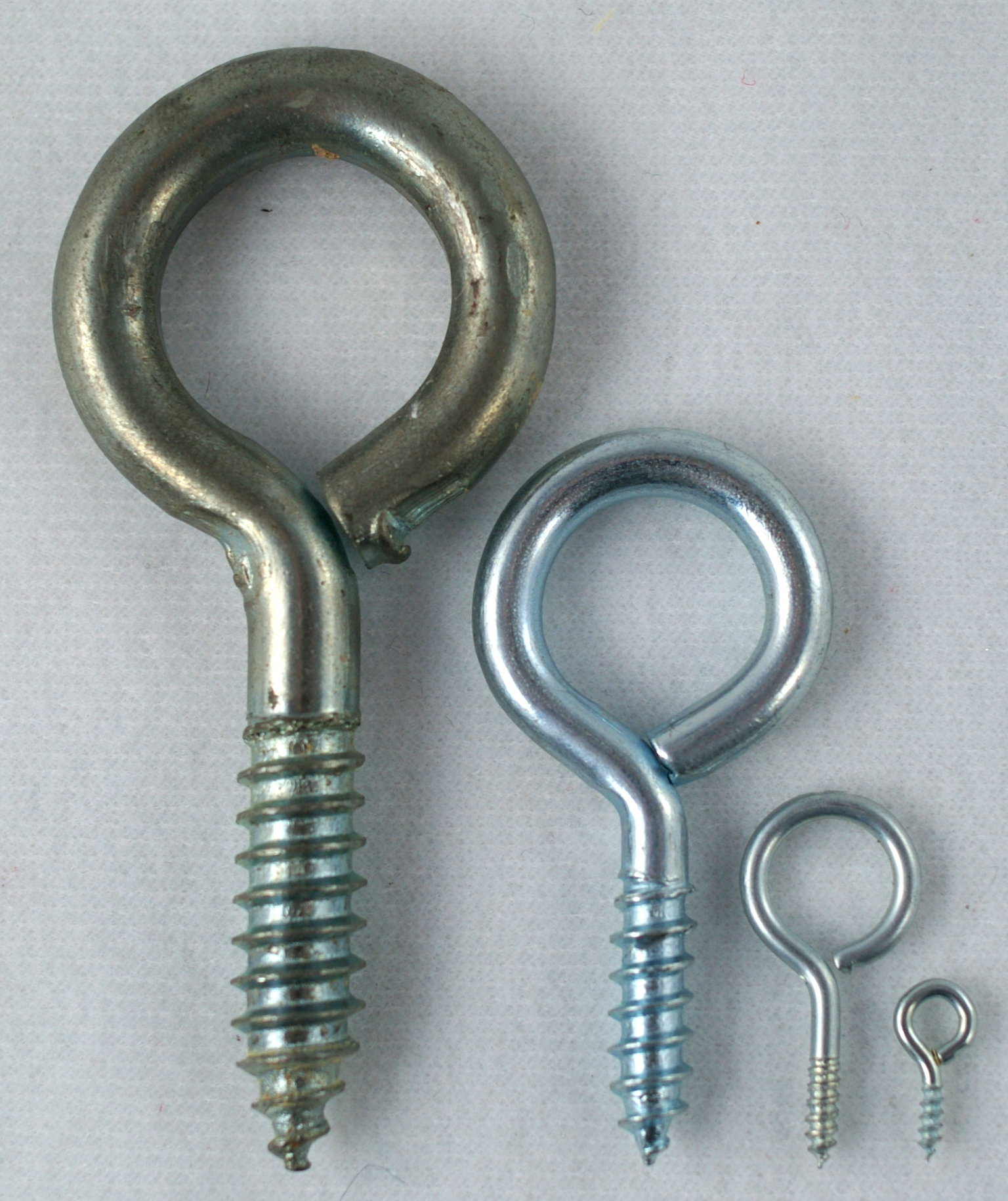 A few eye bolts, with wood screw threading.